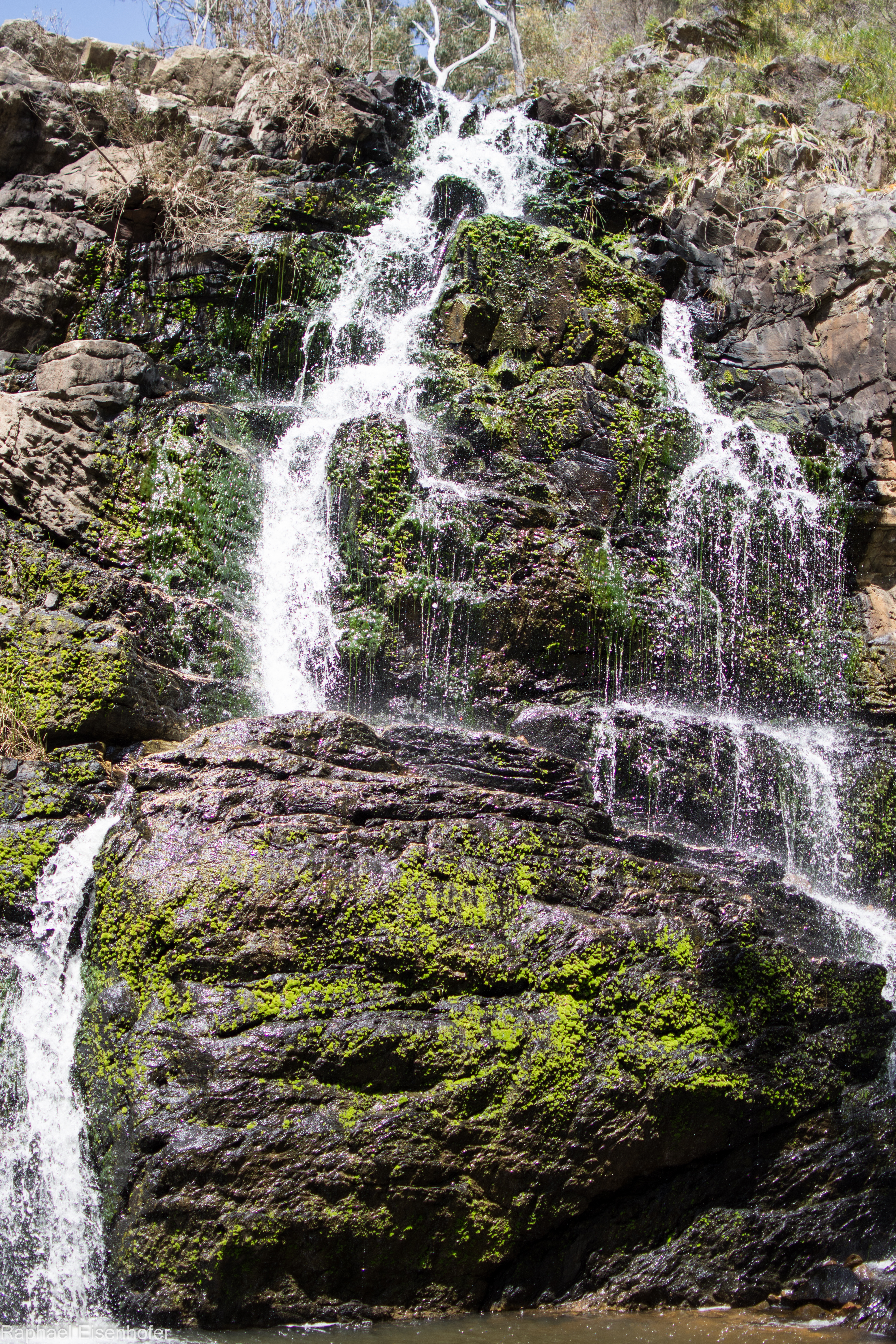 Third Falls in Morialta National Park